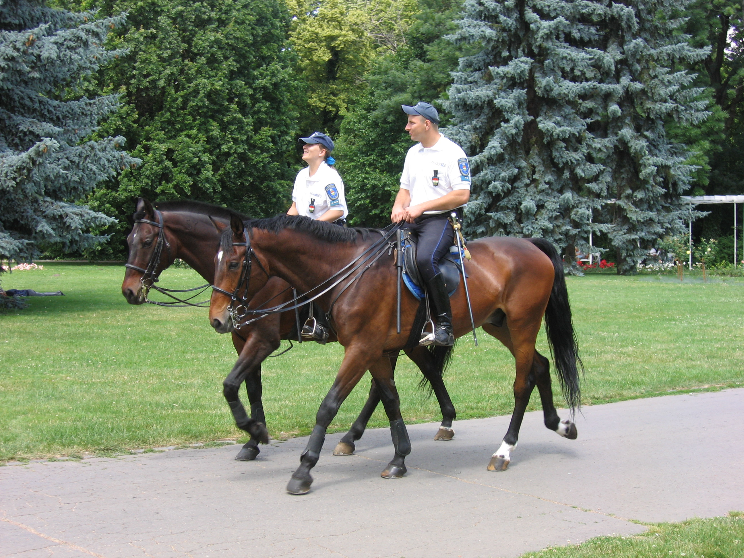 Scenes of Budapest (see filename)